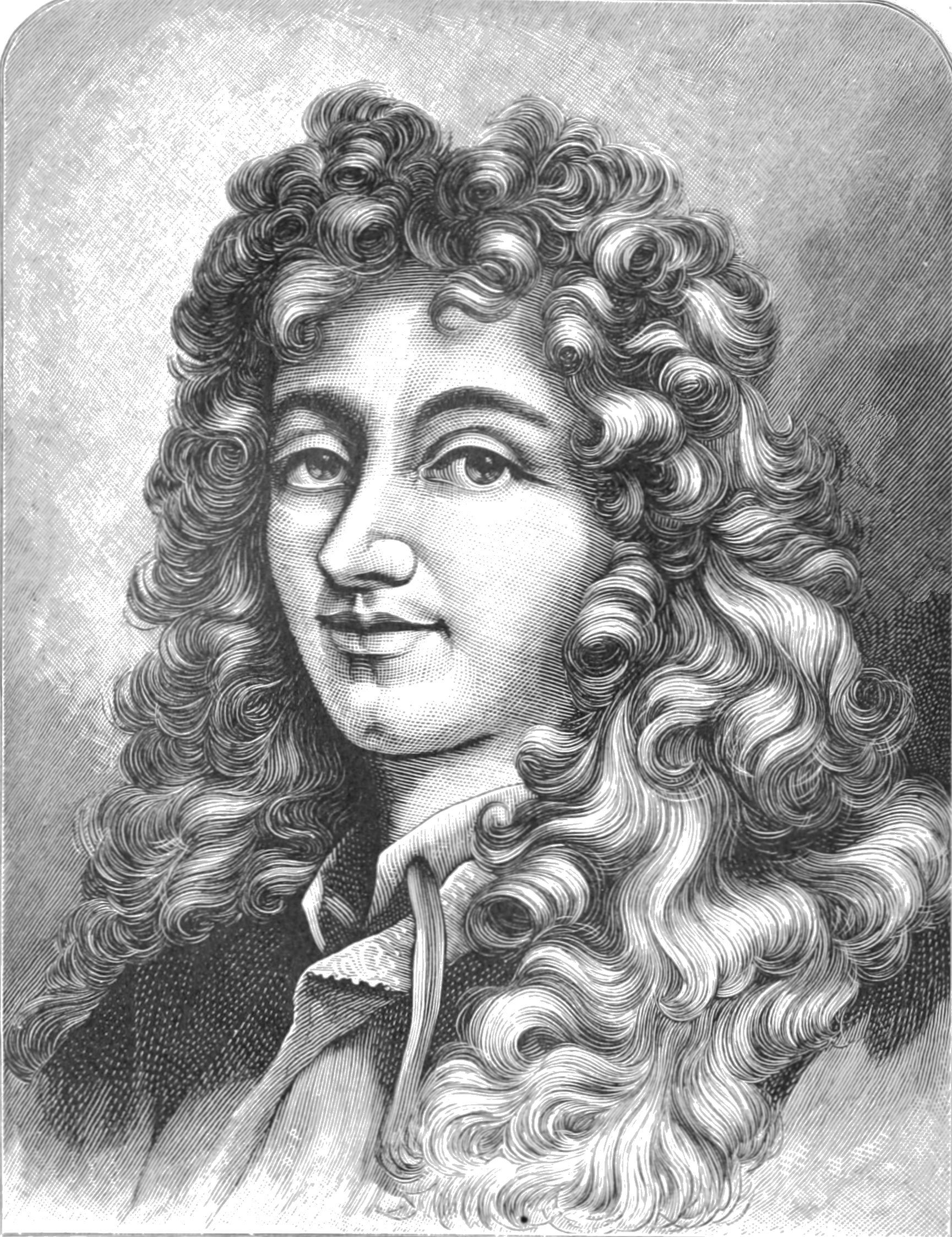 Christian Huygens